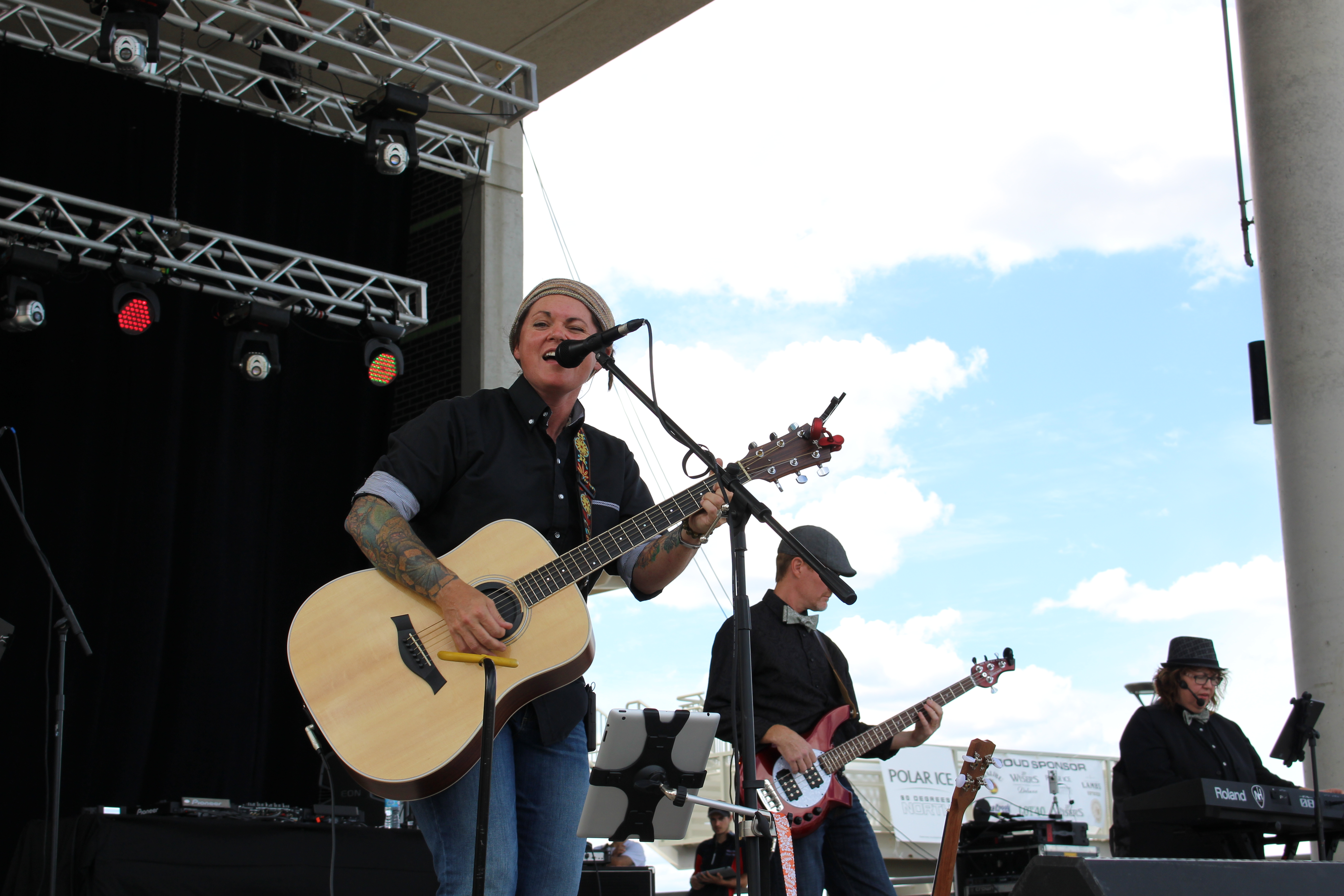 Nikki Holland performing with her band, Nikki Holland & The Dirty Elizabeths at Windsor-Essex Pride Fest in 2016.